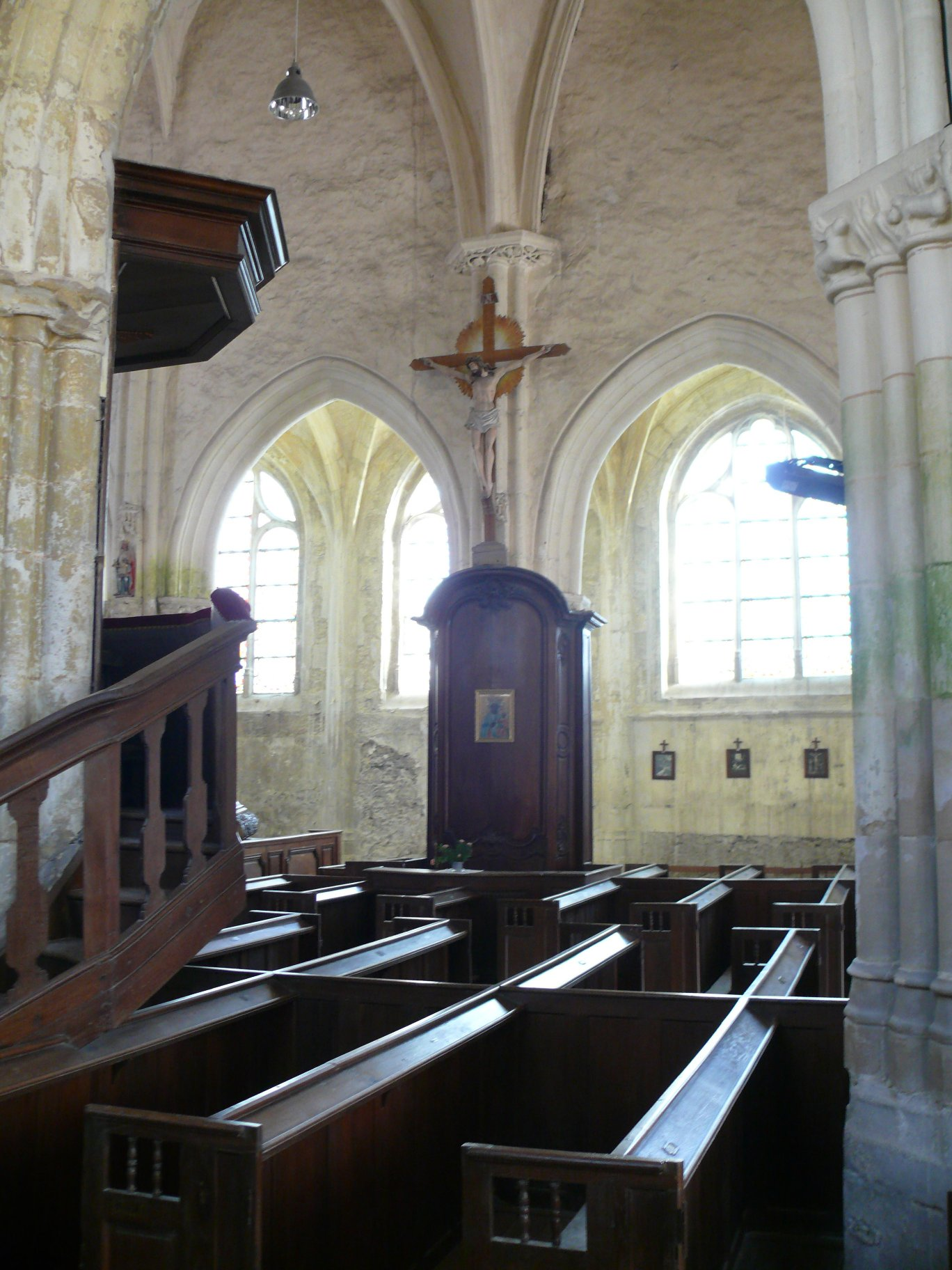 Saint-Peter-and-Paul's church of Silly-le-Long (Oise, Picardie, France).